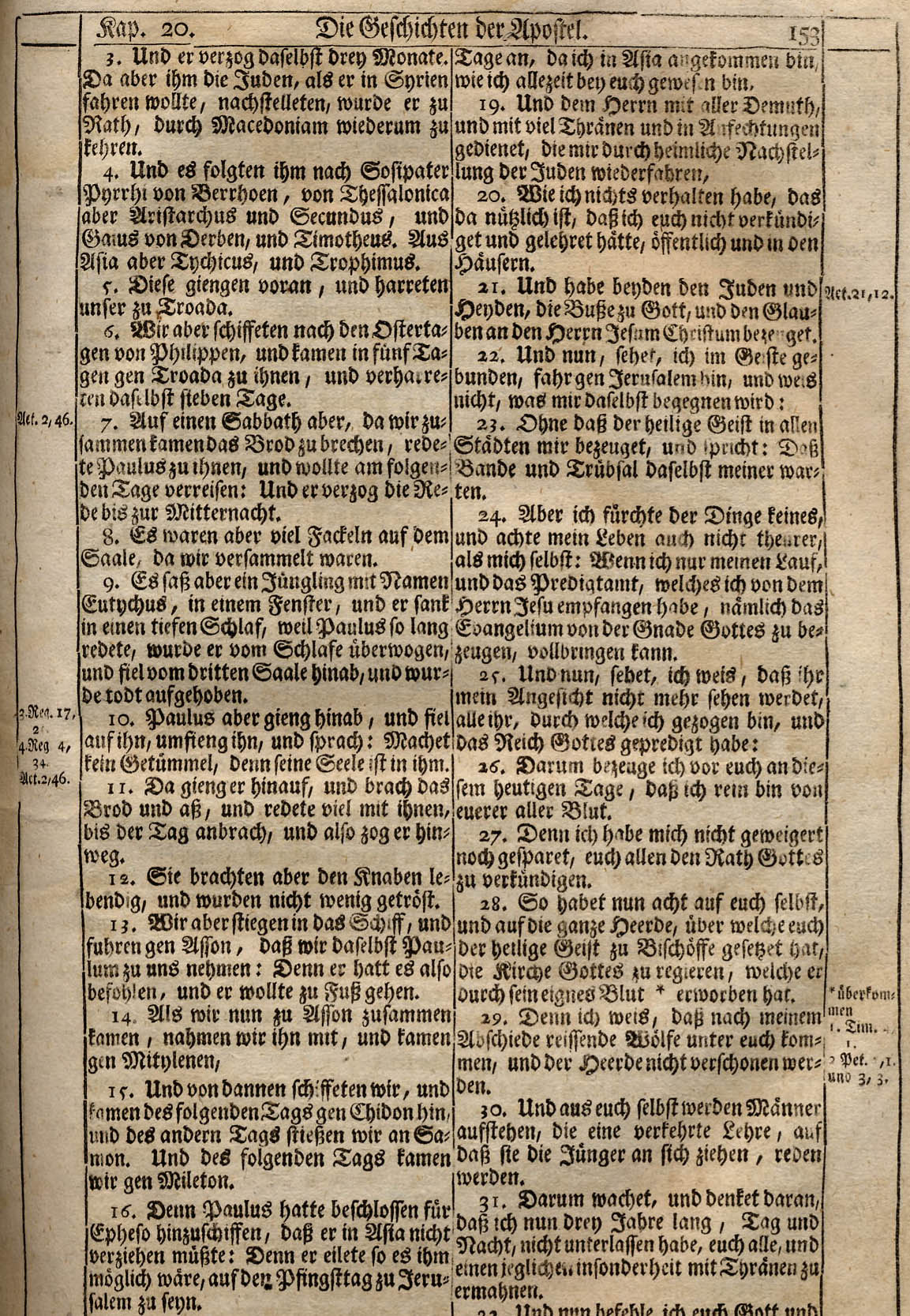 page of the Acts of the Apostles from the last edition of the bible originally translated by Johann Dietenberger, published in Augsburg 1776